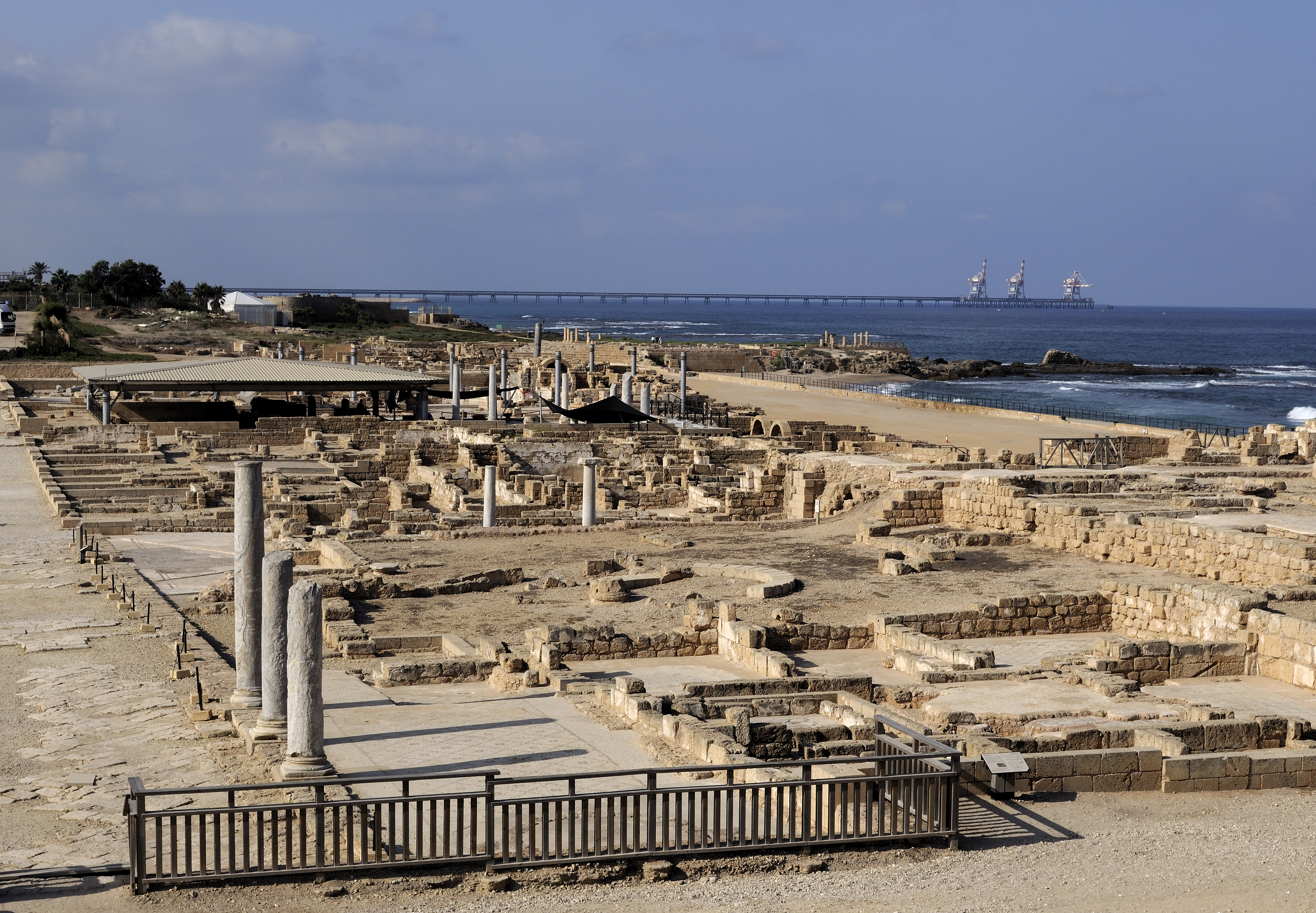 Picture taken in Caesarea Maritima national park.